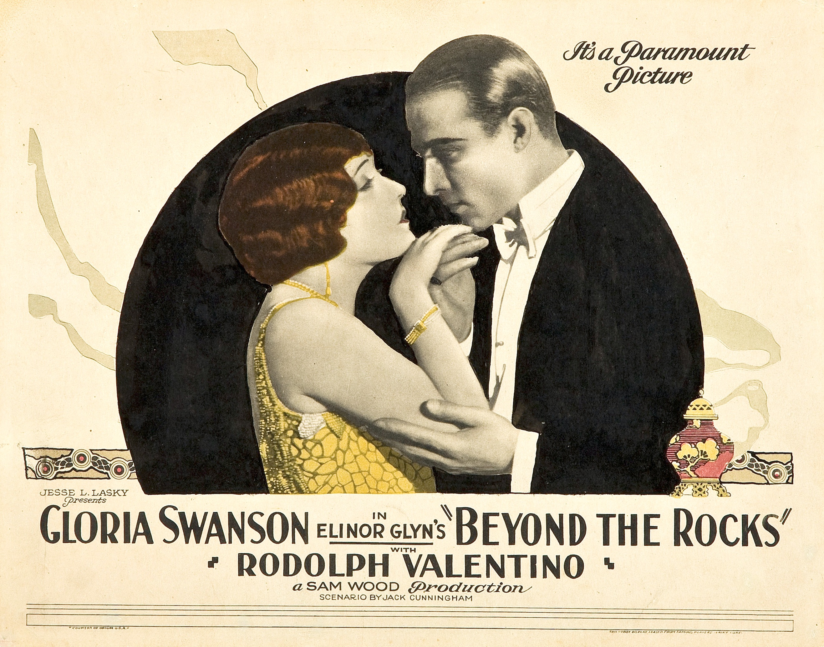 Poster for the American film Beyond the Rocks (1922).